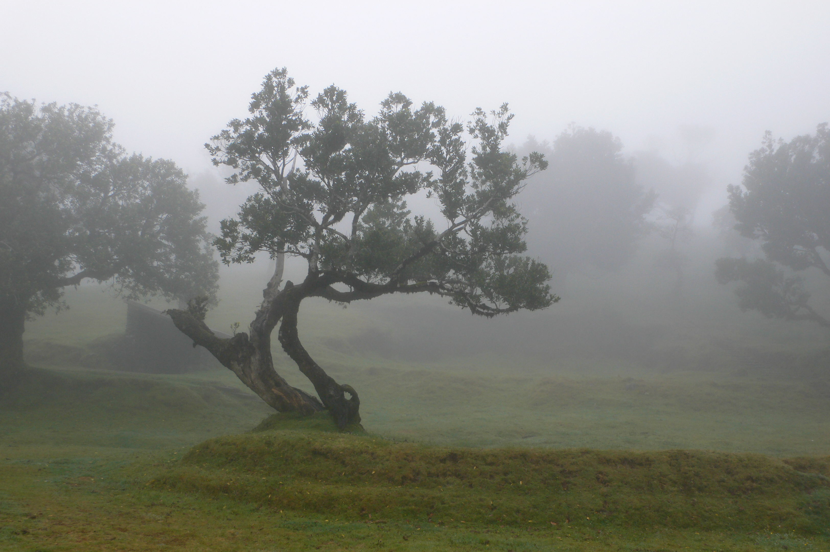 Laurel forest in the mountains of Madeira